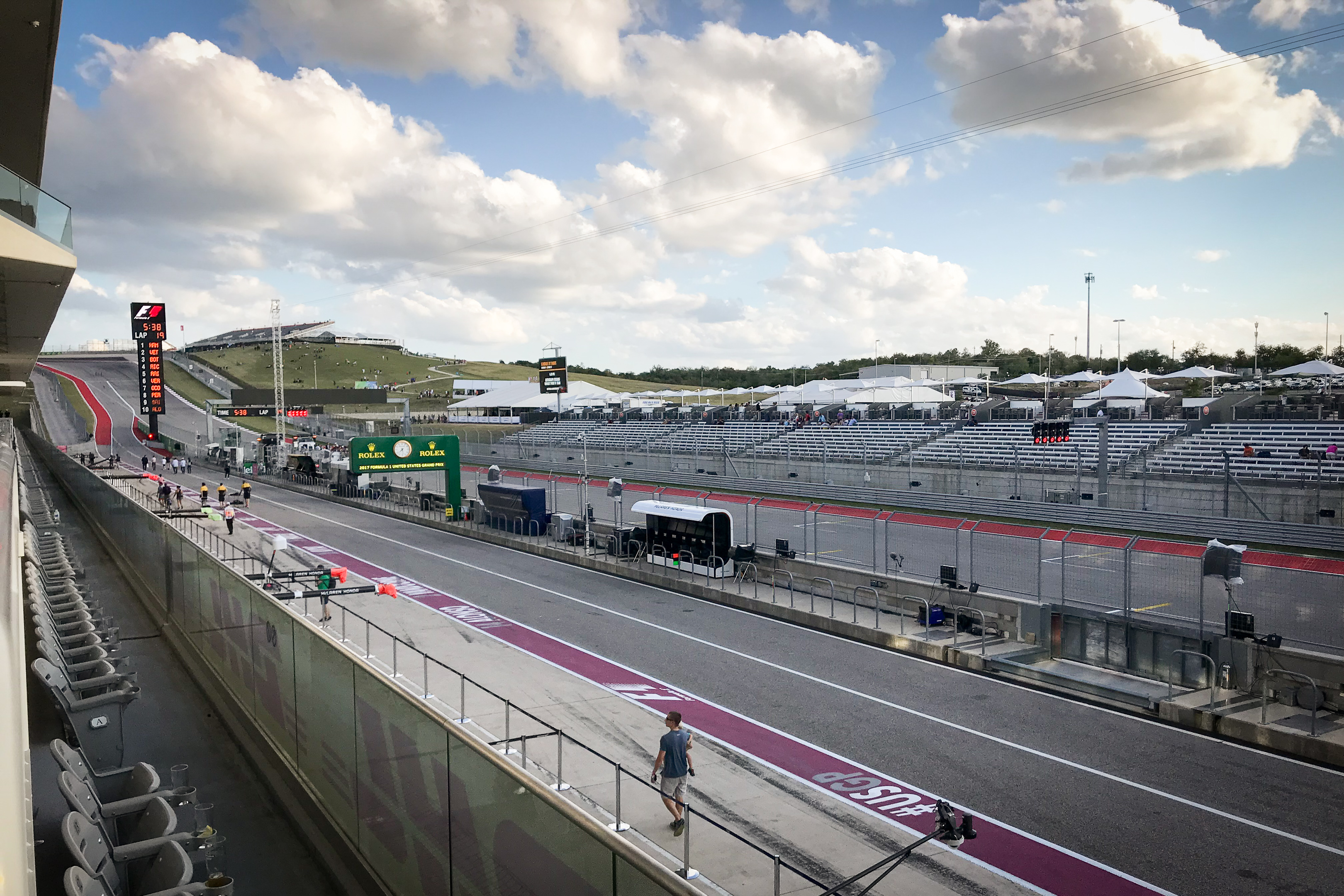 USGP Austin Oct 2017